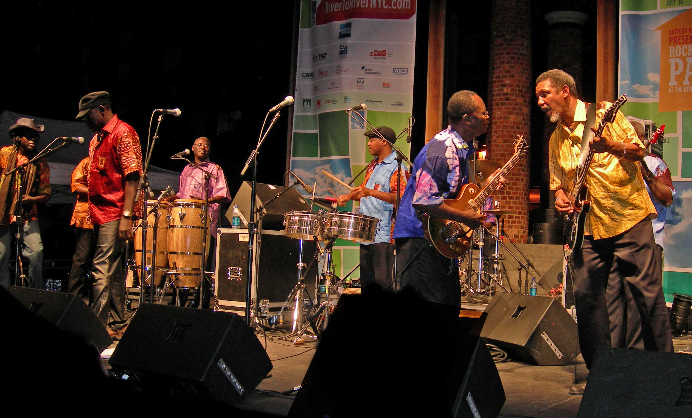 Orchestra Baobab perform at Roosevelt Park, Battery Park City, Manhattan, New York. 2008-06-25.